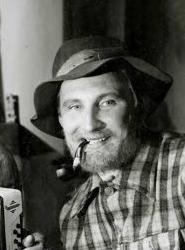 Finnish actor and singer Jorma Ikävalko